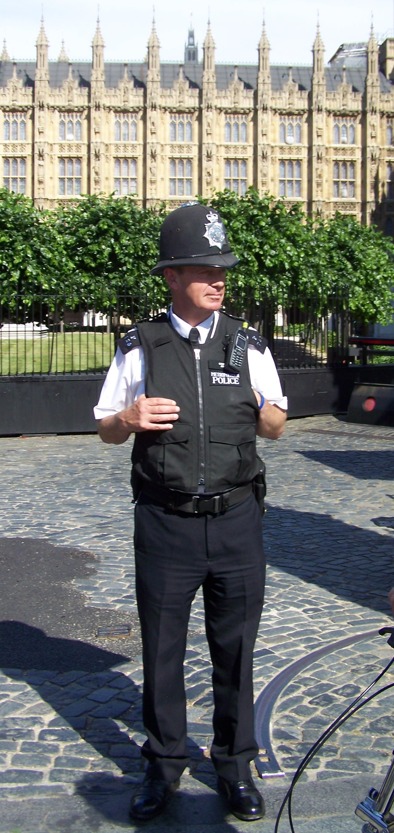 British police man with "Bobby-Hat" in front of the Palace of Westminster.